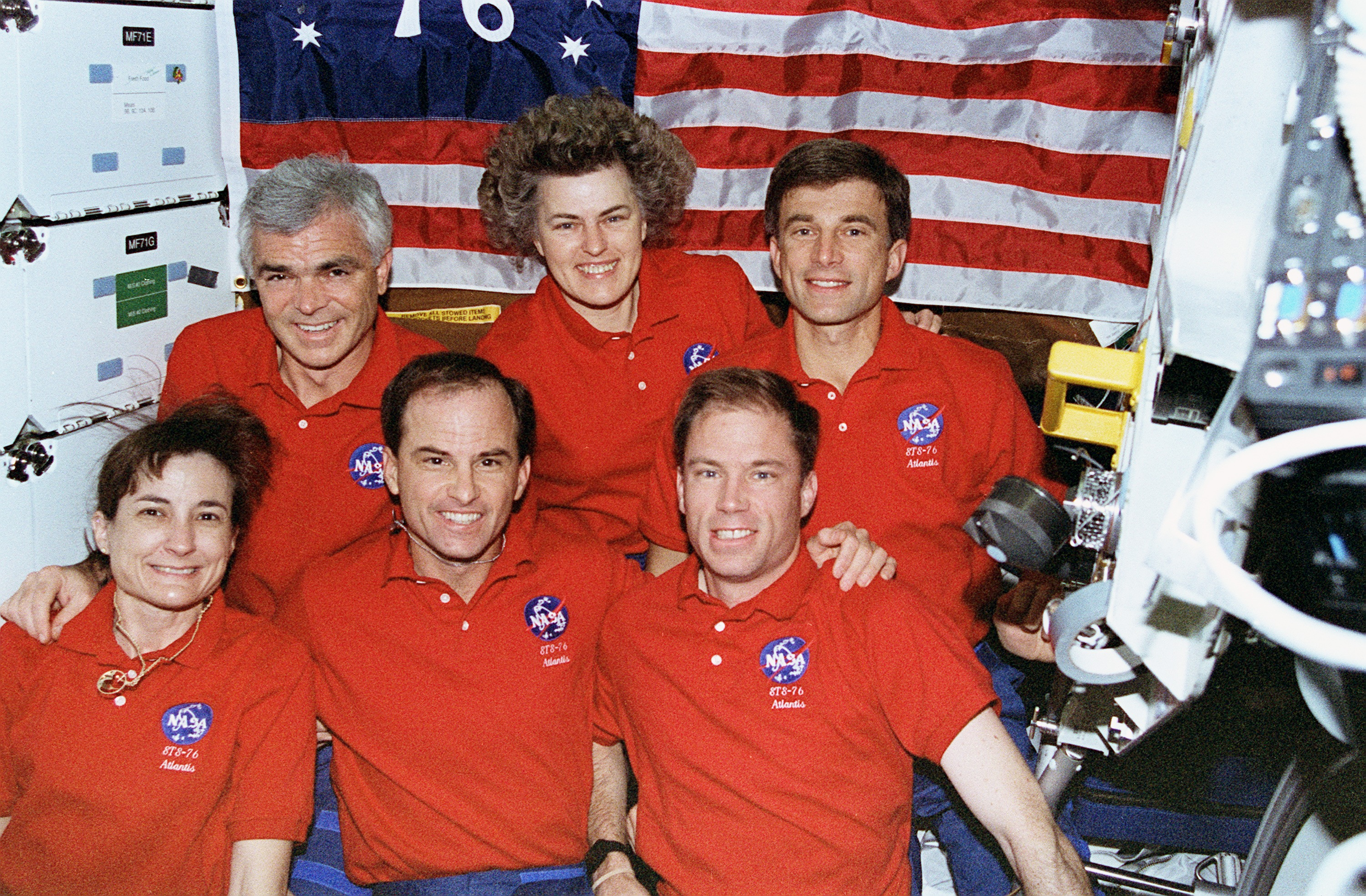 The crew of the Space Shuttle Atlantis poses for a traditional inflight portrait on the mid deck. Shannon W. Lucid (rear center) later joined the Mir-21 crew to begin the first leg of her five-month stay aboard Russia's Mir Space Station. From the left on front row are astronauts Linda M. Godwin, mission specialist; Kevin P. Chilton, mission commander; and Richard A. Searfoss, pilot. Left to right on the back row are astronauts Michael R. (Rich) Clifford, Lucid and payload commander Ronald M. Sega, all mission specialists.